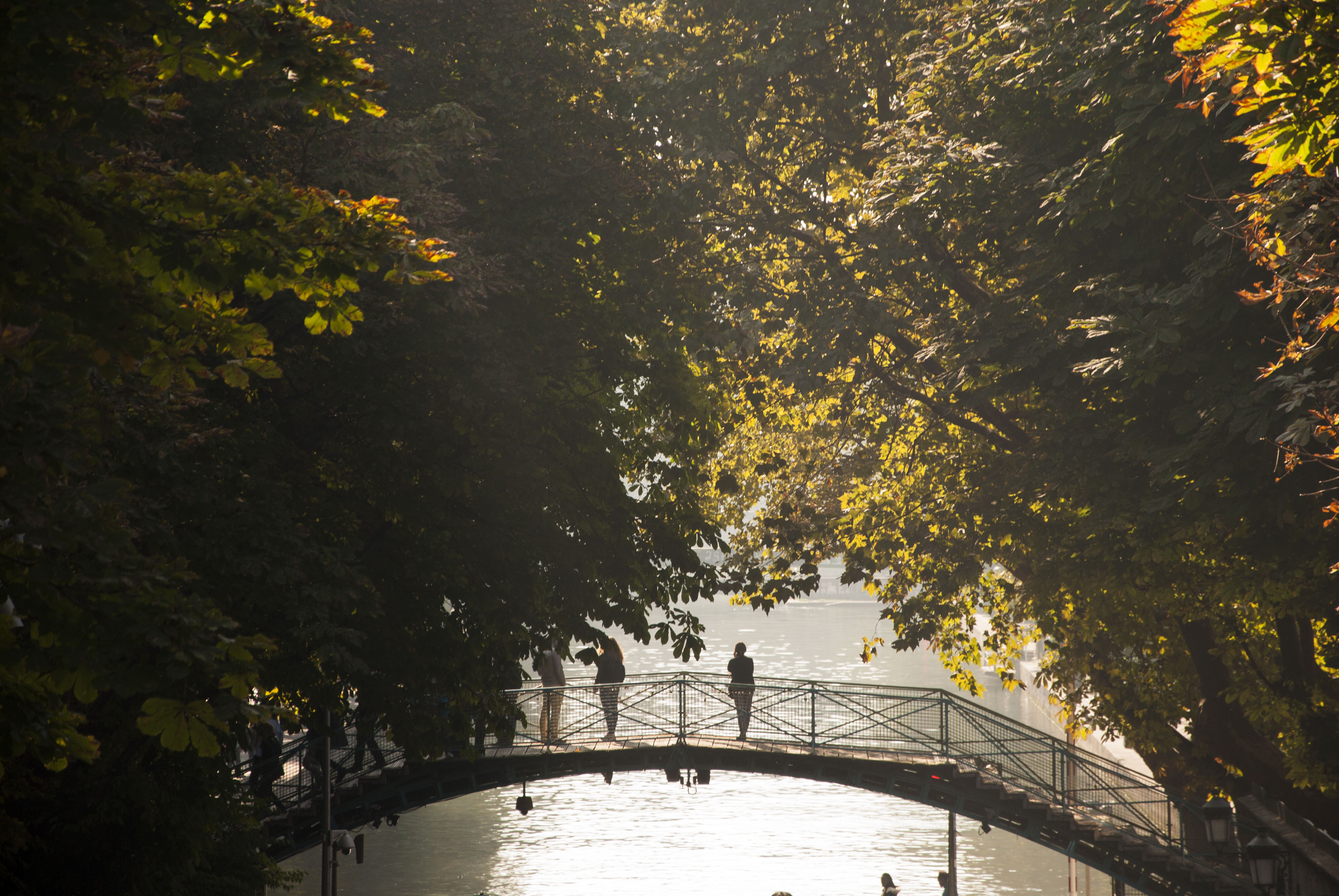 Passerelle Bichat, Canal Saint-Martin, Paris.